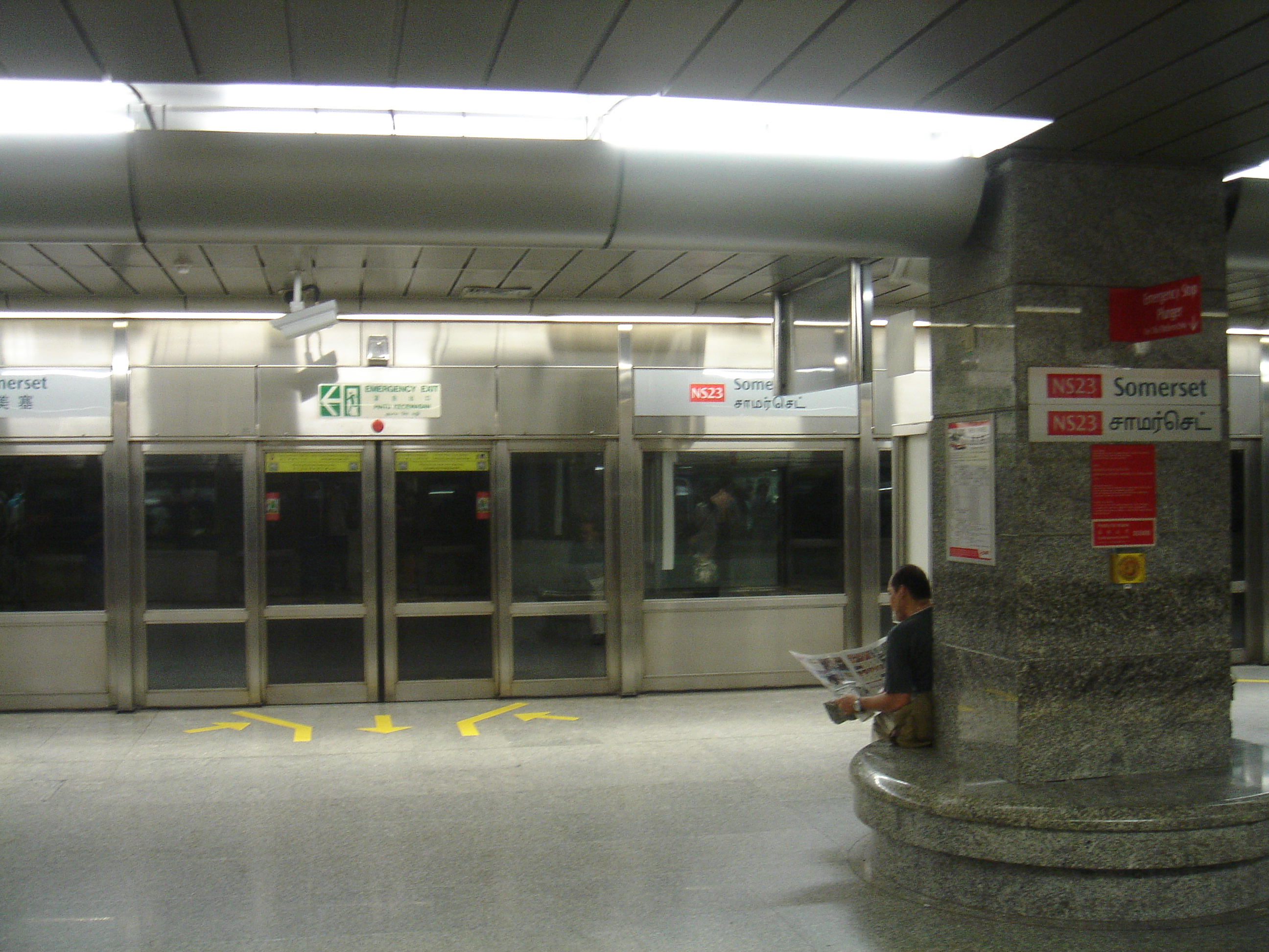 Platform level of Somerset MRT Station, North South Line, Singapore.